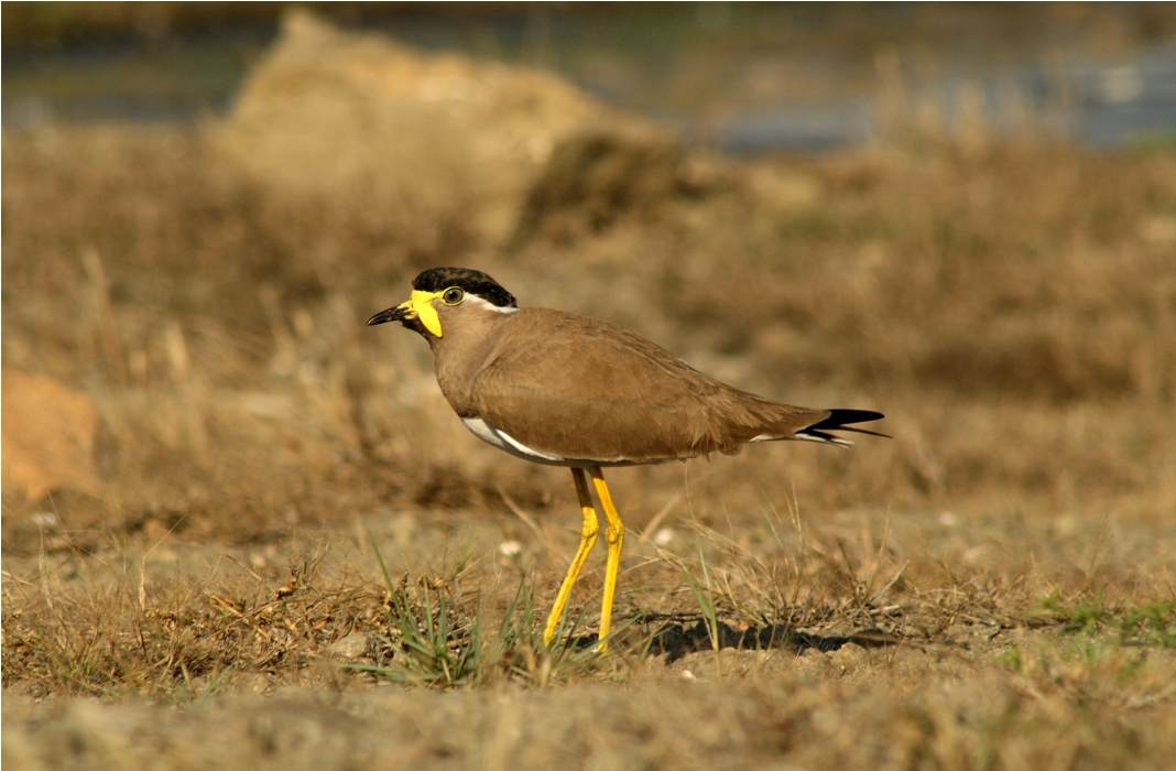 Yellow-wattled Lapwing (Vanellus malabaricus). Jamnagar, Gujarat. .DPP 0066